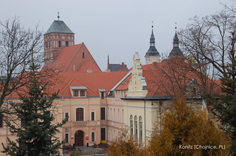 Chojnice.